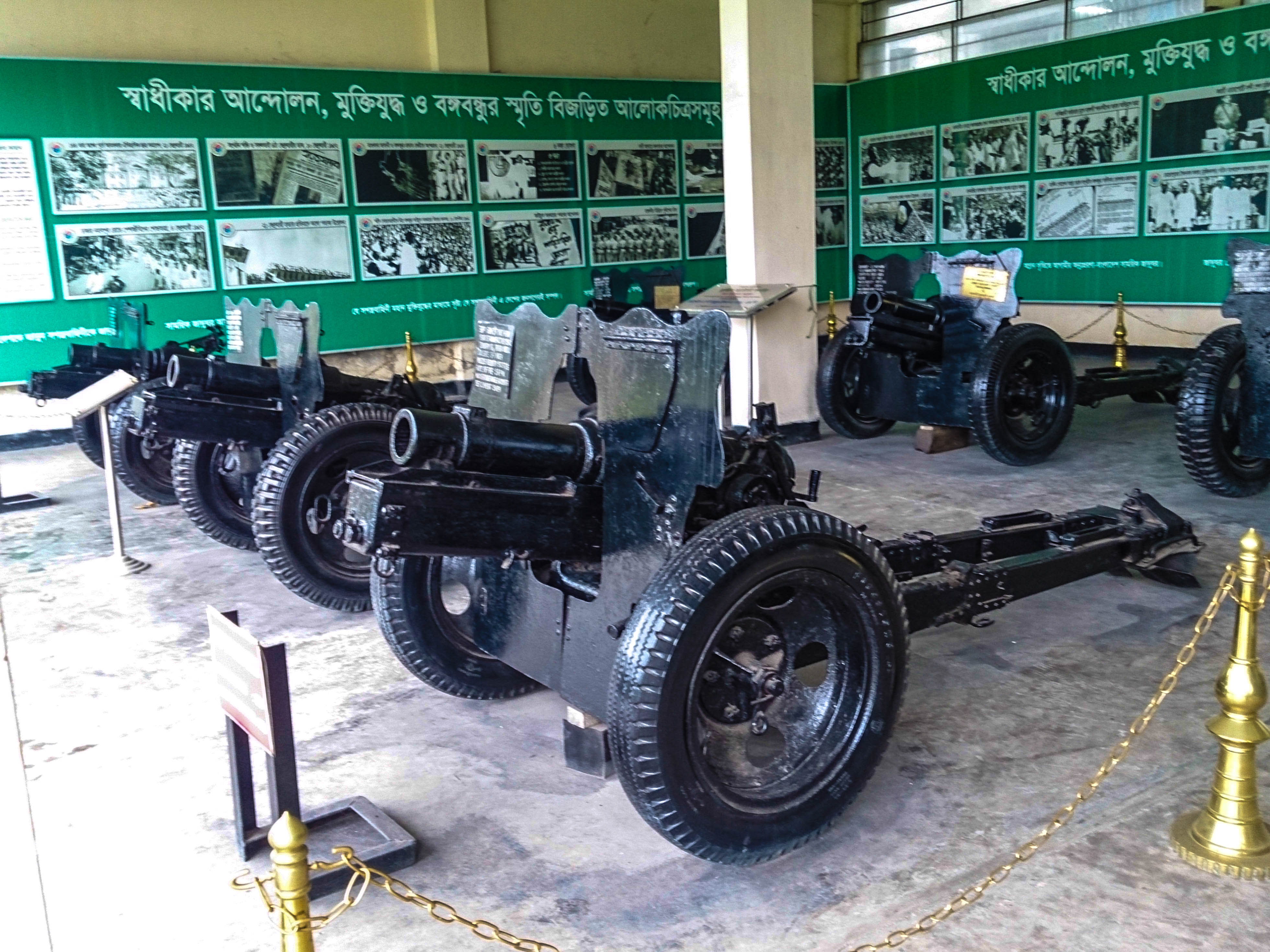 Guns used by "Mujib Battery" in 1971 Bangladesh liberation war. Now placed at Bangladesh Military Museum in Dhaka.